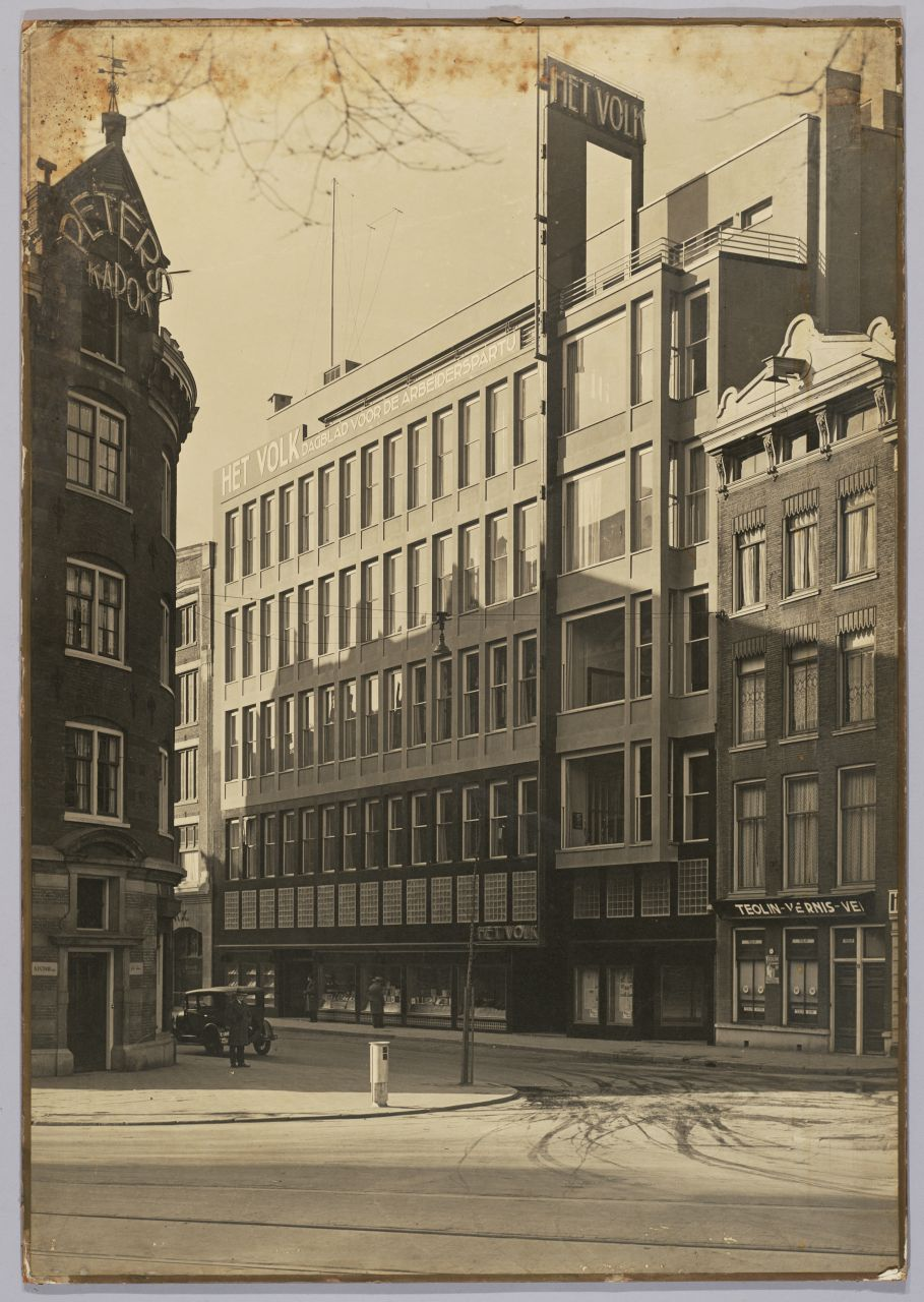 Gebouw De Arbeiderspers, Hekelveld 15, Amsterdam, 1931. Architect: J.W.E. Buys en J.B. Lürsen. Fotograaf: onbekend. Collectie NAi / TENT_n181 URL van deze afbeelding: Meer foto's uit deze collectie kunt u bekijken in de Collectiedatabase van het NAi. Niet van alle gebouwen en interieurs zijn alle gegevens bekend. Heeft u meer informatie of weet u het adres van een gebouw? Laat dan een reactie achter (als u ingelogd bent bij Flickr) of stuur een mailtje naar: Al deze foto's zijn gemaakt in de eerste helft van de twintigste eeuw. Wij zijn benieuwd hoe deze gebouwen er vandaag de dag uitzien. Heeft u recente foto's van deze gebouwen of locaties, voeg ze dan toe als commentaar. U kunt een eigen Flickr-foto toevoegen door de URL ervan tussen vierkante haken in het commentaarveld te plakken. Als uw foto's een Creative Commons licentie hebben, nemen we ze bovendien graag op in de NAi Collectiedatabase. De Arbeiderspers Building, Hekelveld 15, Amsterdam, 1931. Architect: J.W.E. Buys and J.B. Lürsen. Photographer: unknown. NAI Collection / TENT_n181 Persistent URL: For more photographs from this collection, please visit the NAI Collection Database You can help us gain more knowledge on the content of our collection by adding a comment with information. If you do not wish to log in, you can write an e-mail to: All these pictures are taken in the first half of the twentieth century. We are curious to learn how these buildings look like today. If you have recently taken photographs of these buildings or locations, please add them to your comment. If you'd like to include a Flickr photo, simply copy and paste its URL between square brackets in the commentary-field. Photos with a Creative Commons licence may be used to illustrate the NAi Collection Database.